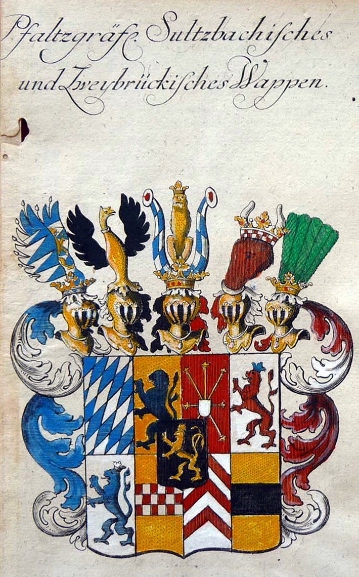 Großes Wappen der Herzöge von Pfalz-Sulzbach